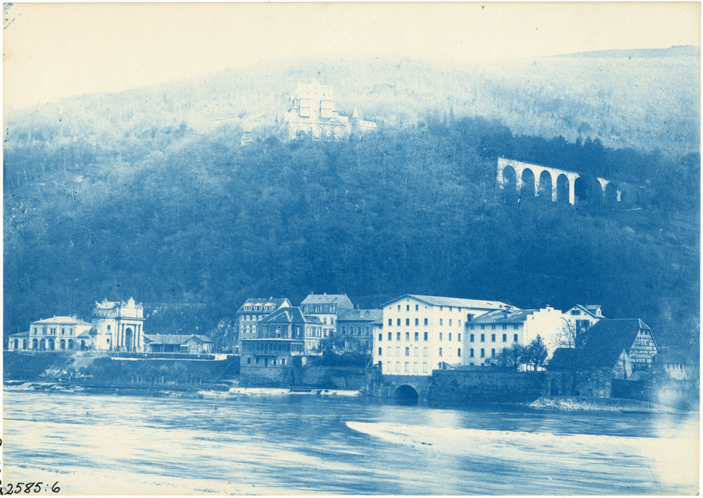 Heidelberg with river Neckar